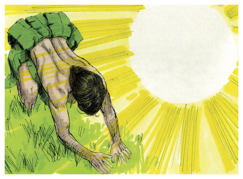 Biblical illustration of Book of Genesis Chapter 3